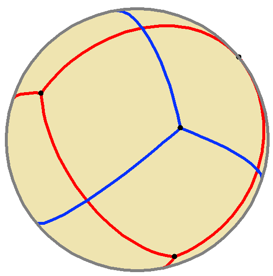 Spherical model of regular compound polyhedron, edges color each polyhedra